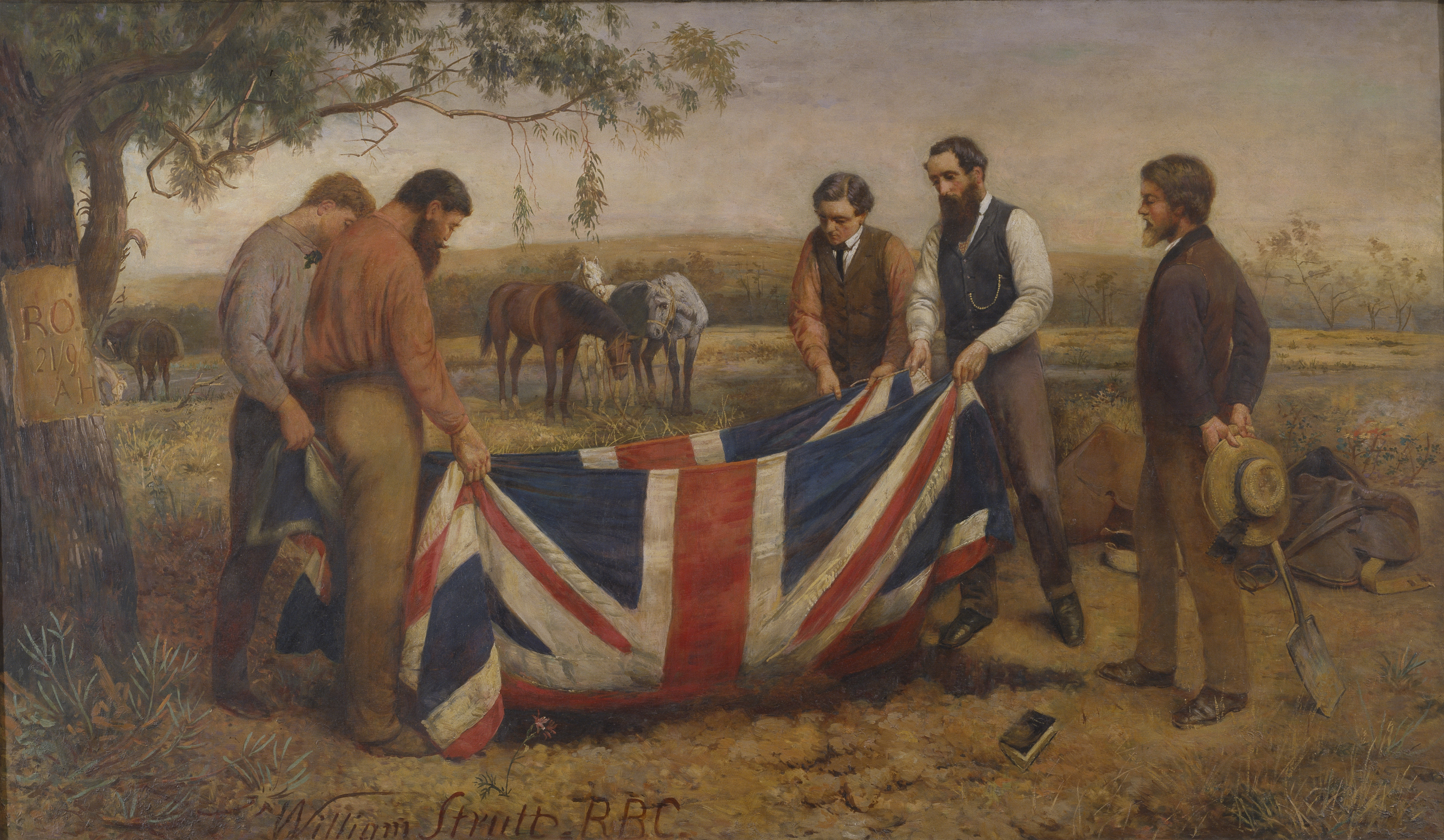 The Burial of Burke, painting, oil on canvas, 122.0 x 204.0 cm, by William Strutt